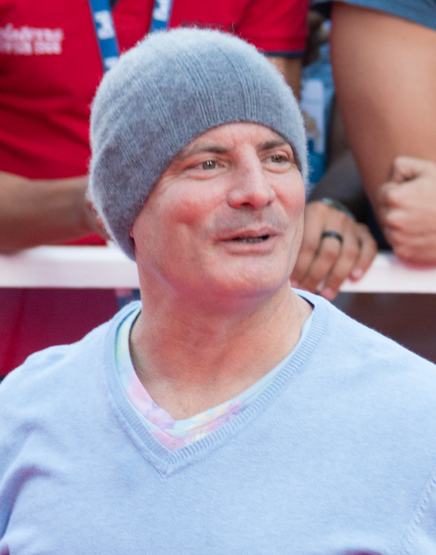 Dito Montiel at the TIFF premiere of Man Down